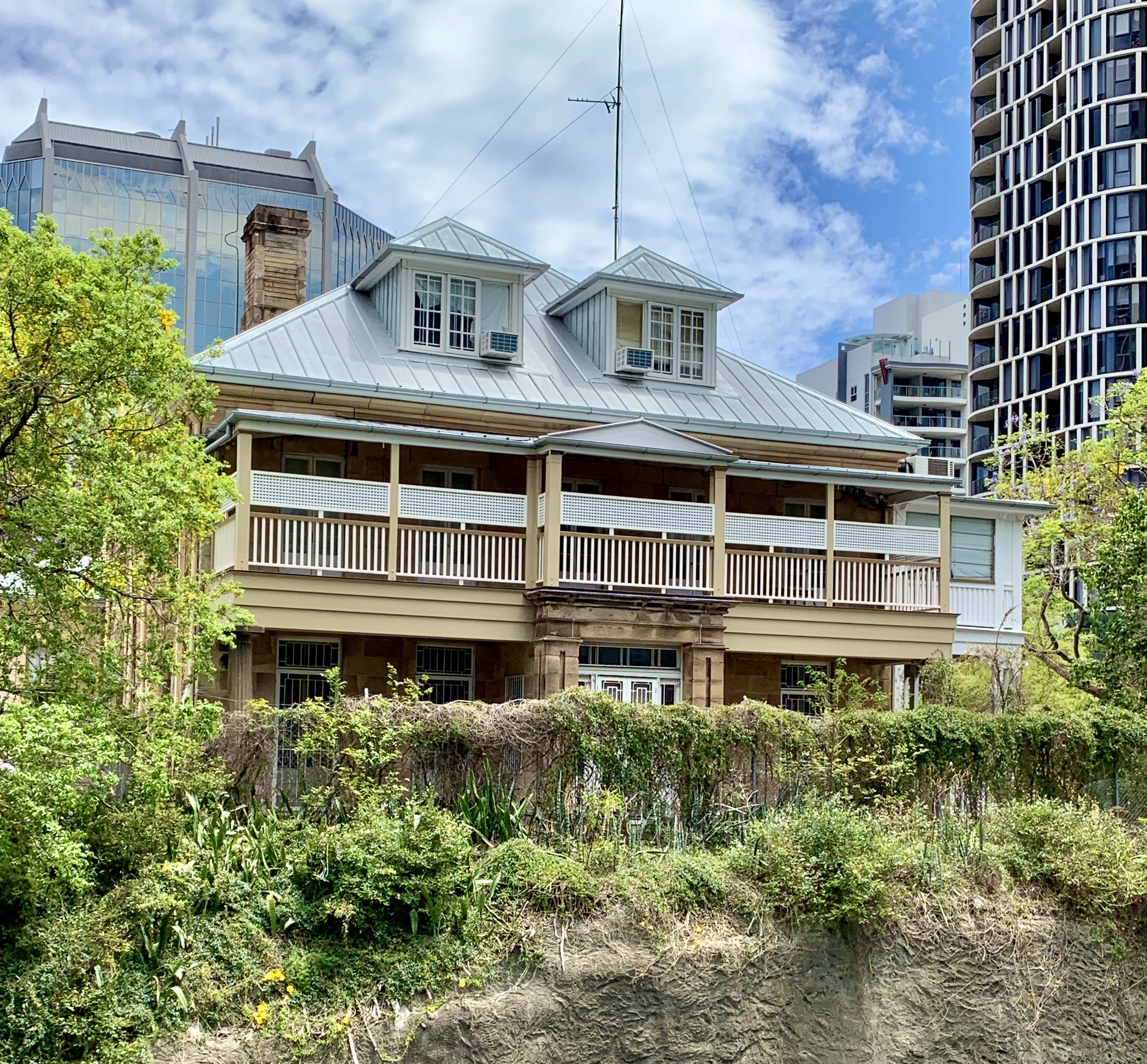 The Deanery, Adelaide Street facade, seen from Hobbs Park at level 4 of 480 Queen Street, Brisbane, November 2019